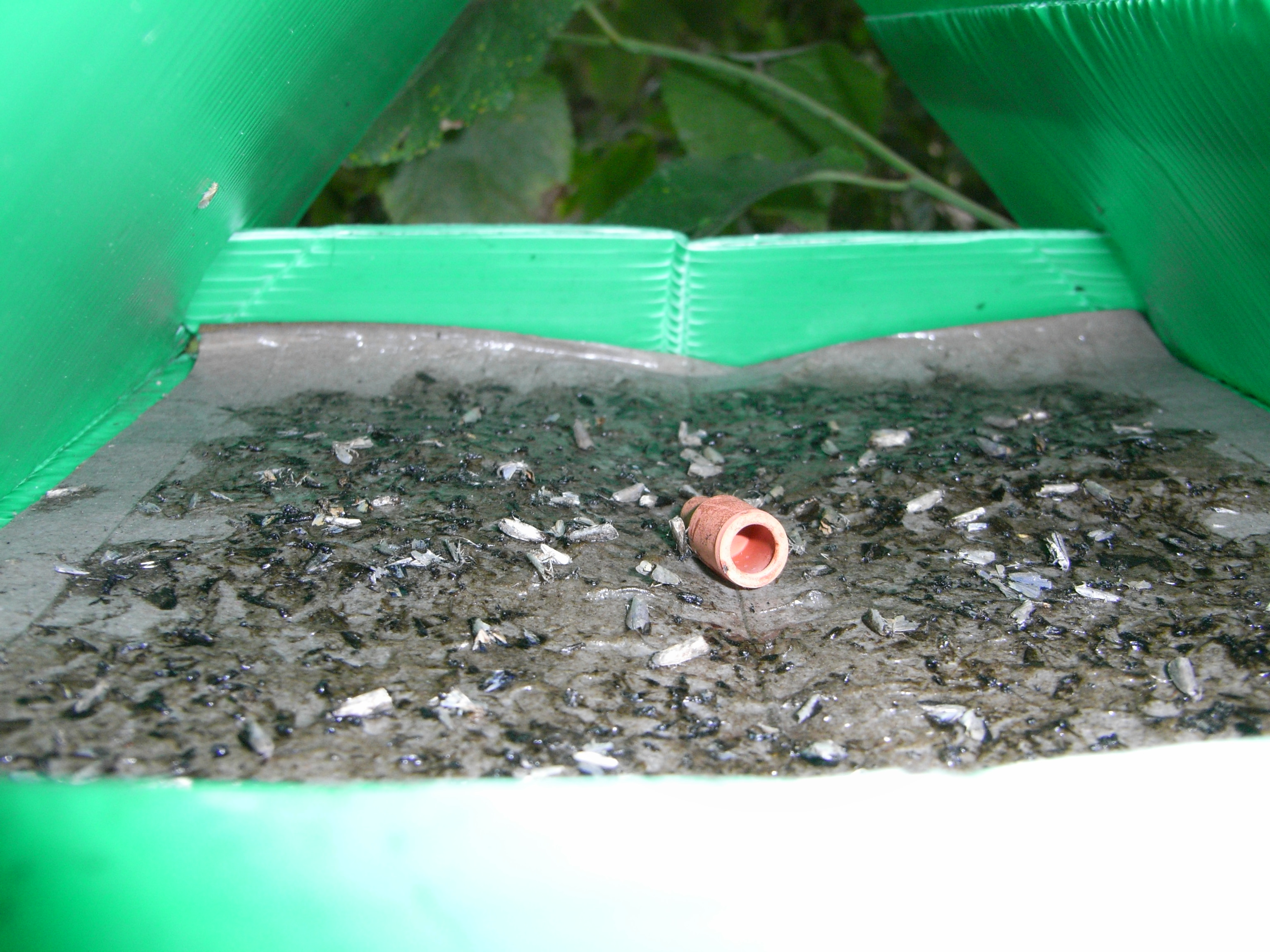 Insect trap